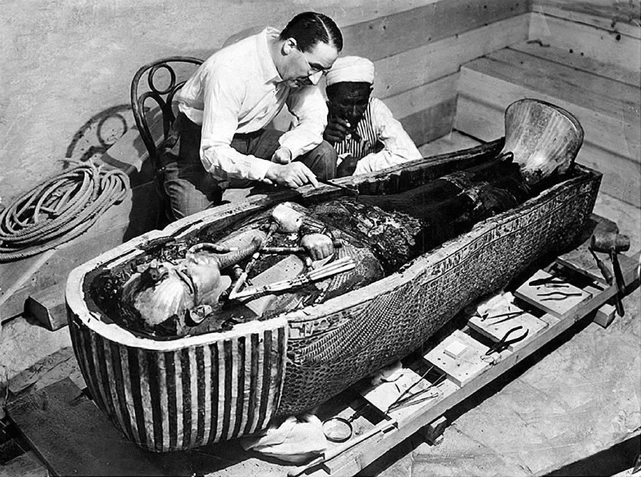 Howard Carter opens the innermost shrine of King Tutankhamun's tomb near Luxor, Egypt which one of carter's water boy found the steps down to.